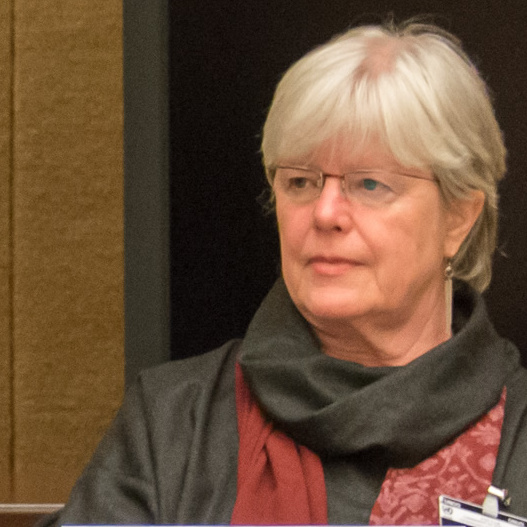 Prof. Robin Mansell, Department of Media and Communications, LSE